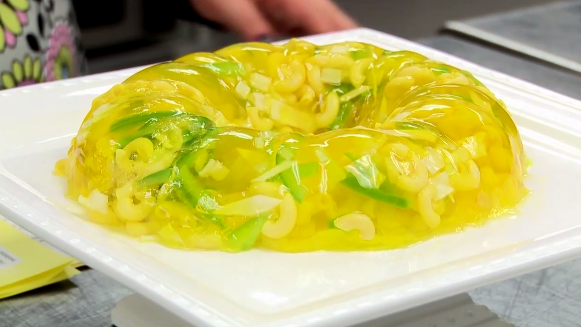 Image of a savory jell-o mold containing a variety of ingrediants including lemon jello, cabbage, celery, green pepper, and macaroni based on a recipe from a 1930s cookbook. The image is from a video about Jell-O.